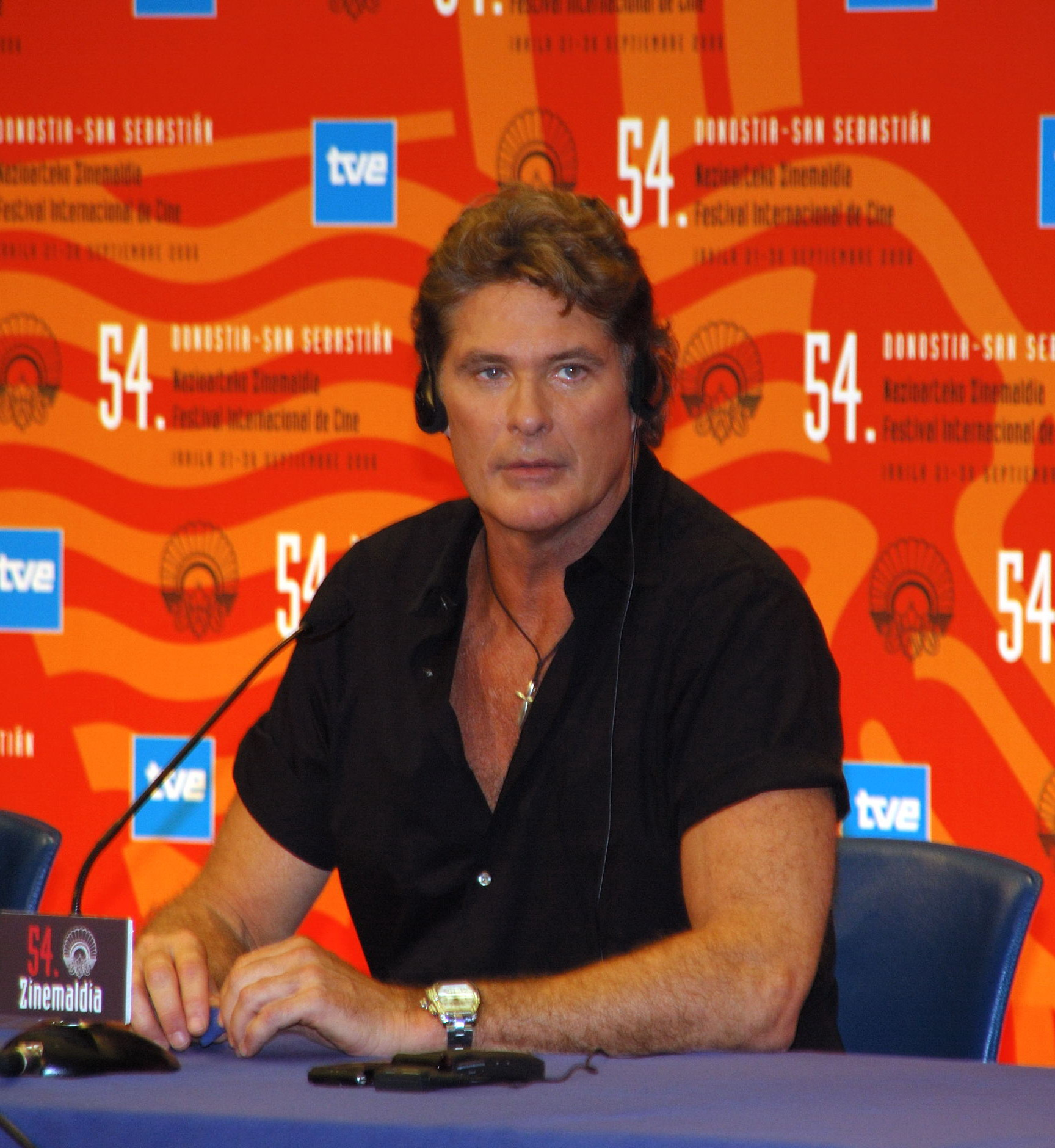 David Hasselhoff at the 2005 San Sebastián International Film Festival (Spain).David Hasselhoff